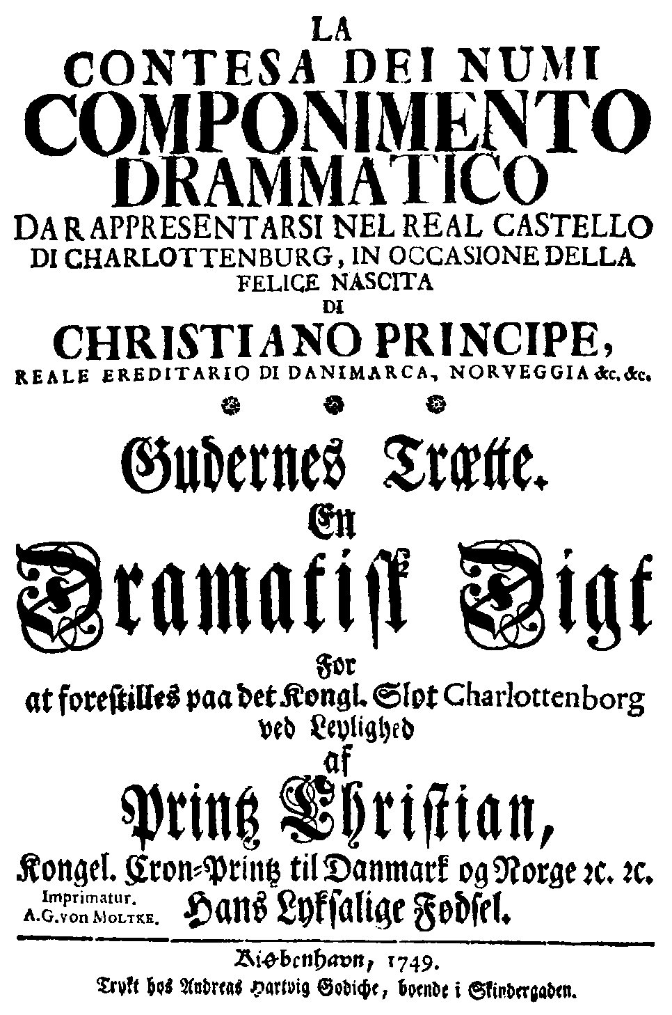 Christoph Willibald Gluck - La contesa dei numi - titlepage of the libretto - Kopenhagen 1749